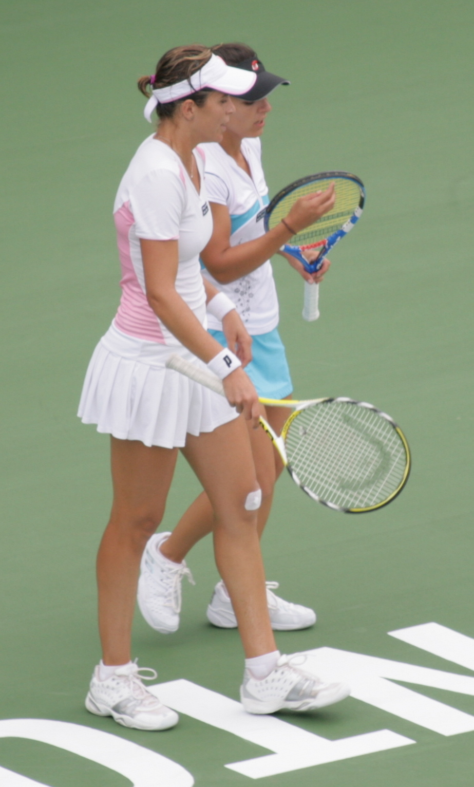 2009 Rogers Cup - Women Pairs